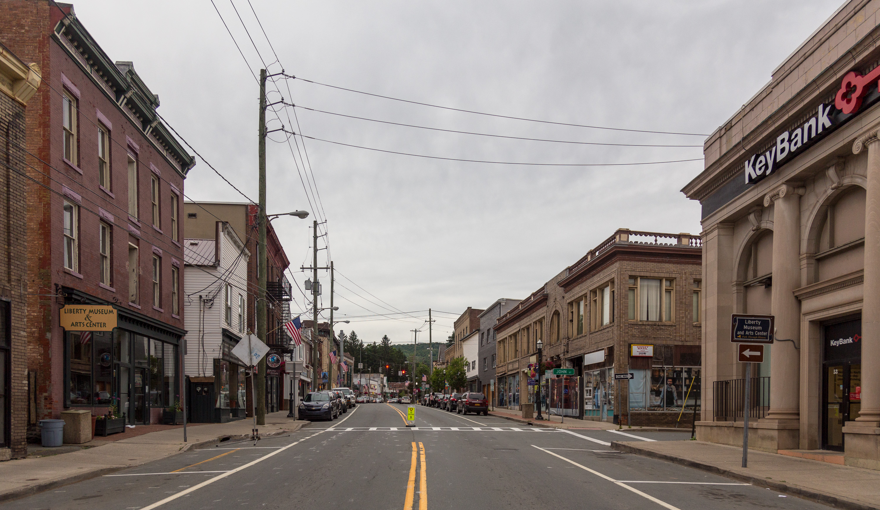 Looking north on Main Street in downtown Liberty Village, New York